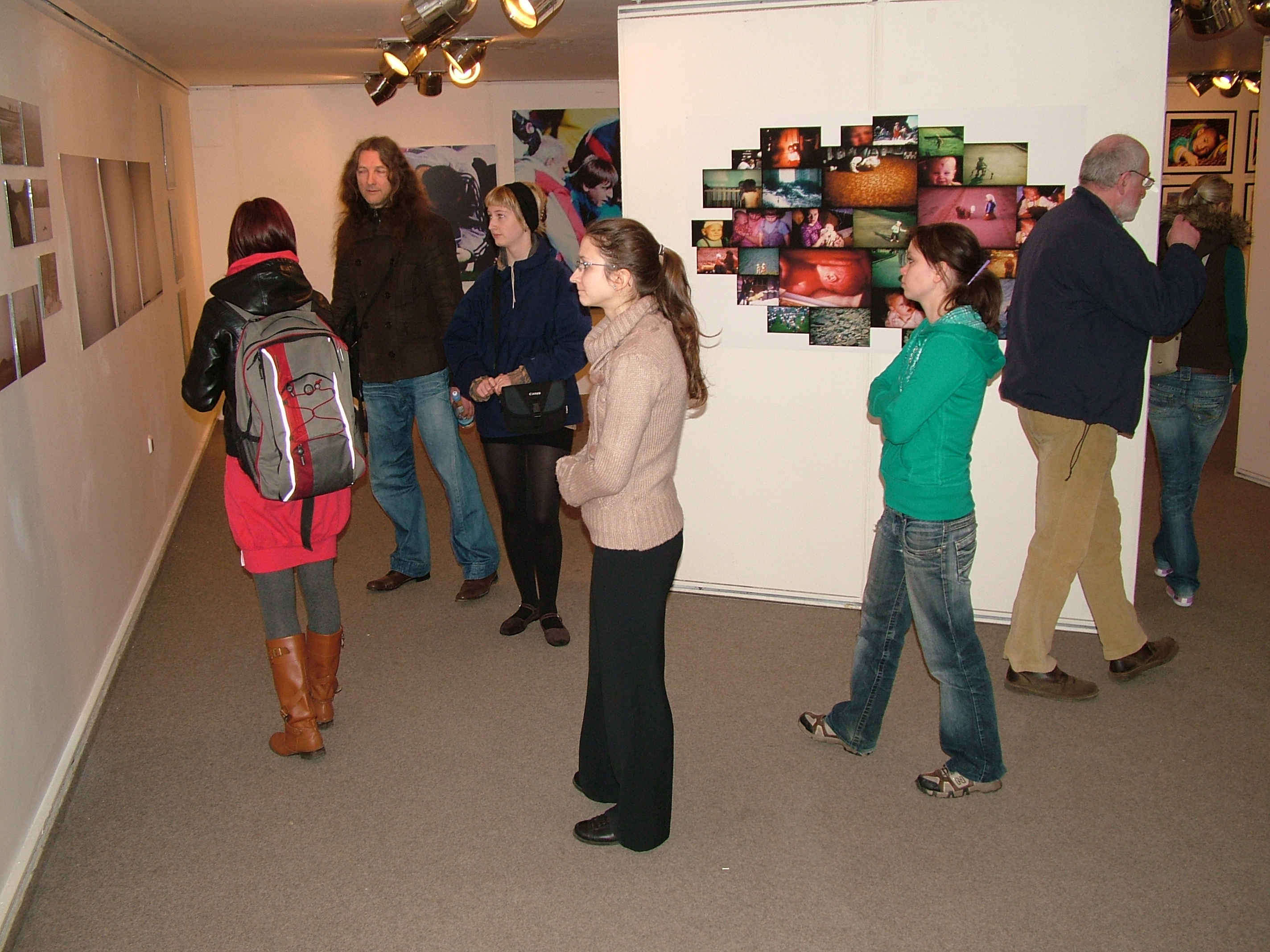 Prague Photo Česky: Prague Photo je fotografická výstava, která se každoročně koná v pražské výstavní síni Mánes. První ročník se uskutečnil v roce 2008. Návštěvníci.